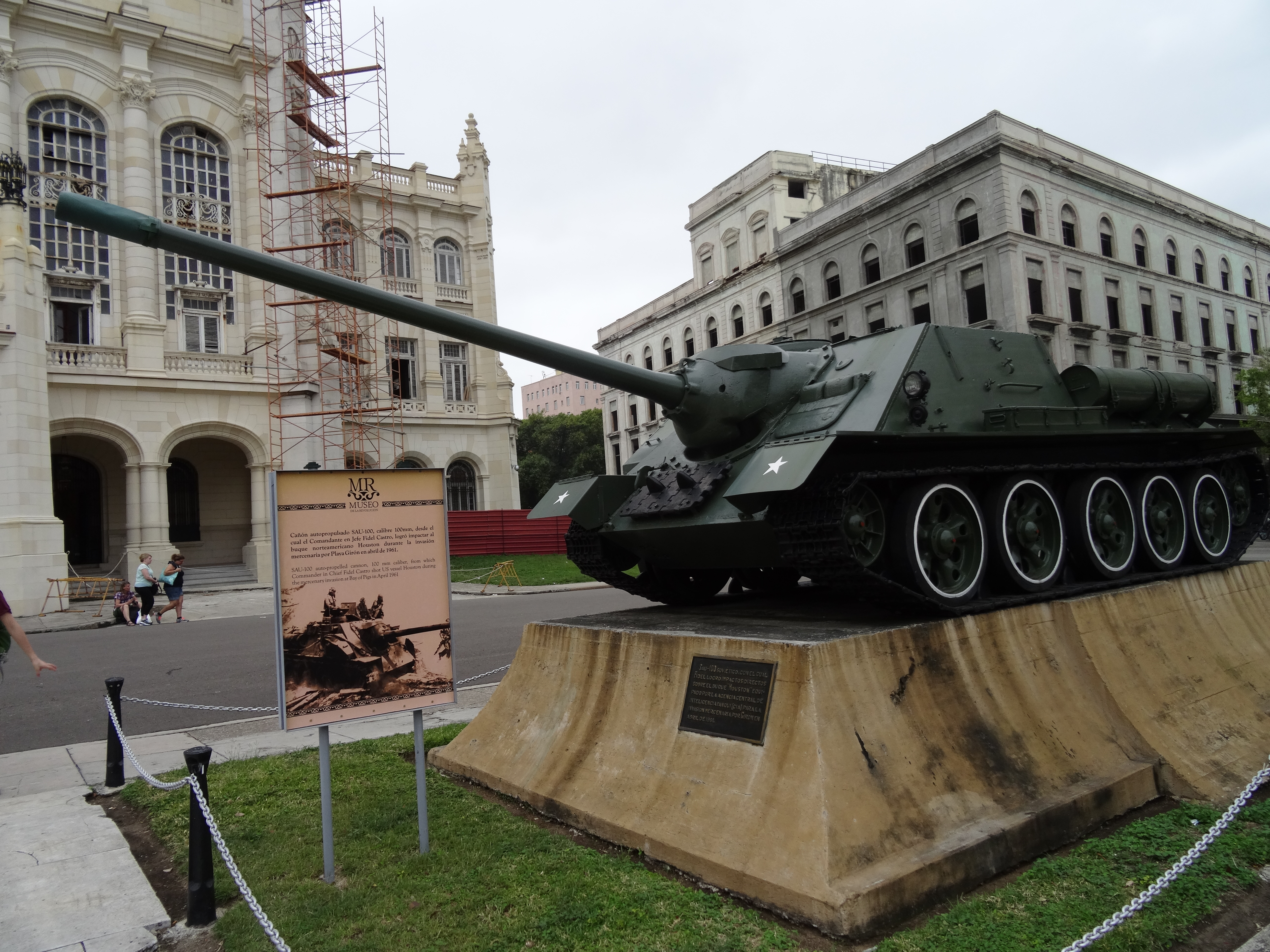 Soviet tank destroyer SU-100 in front of Museo de Revolucion, Havana, Cuba